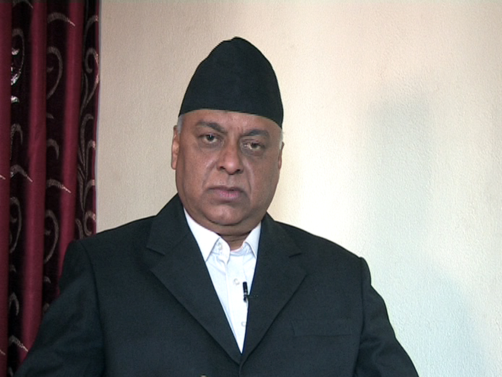 Home minister of Nepal.